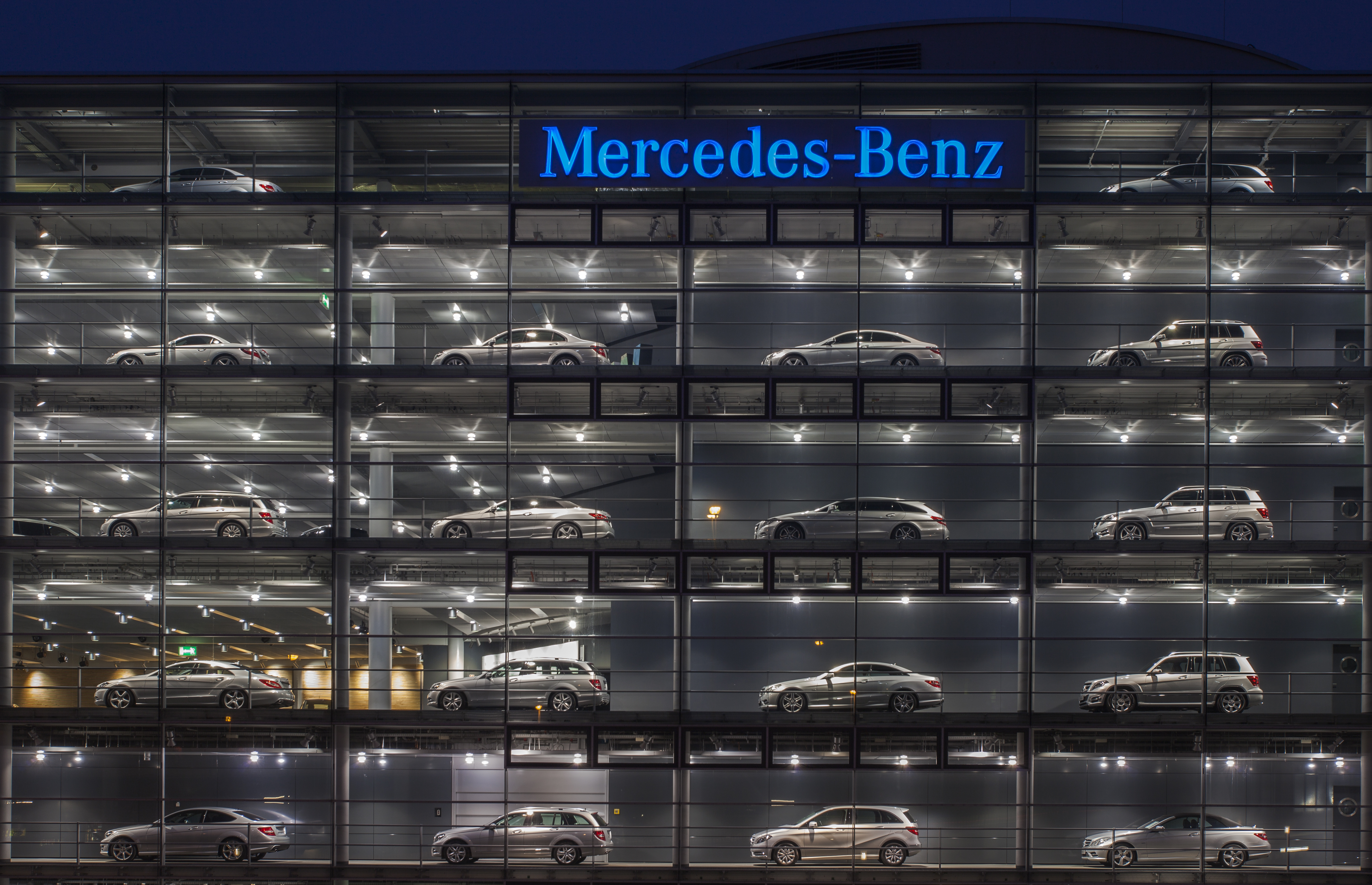 Mercedes-Benz dealership, Munich, Germany